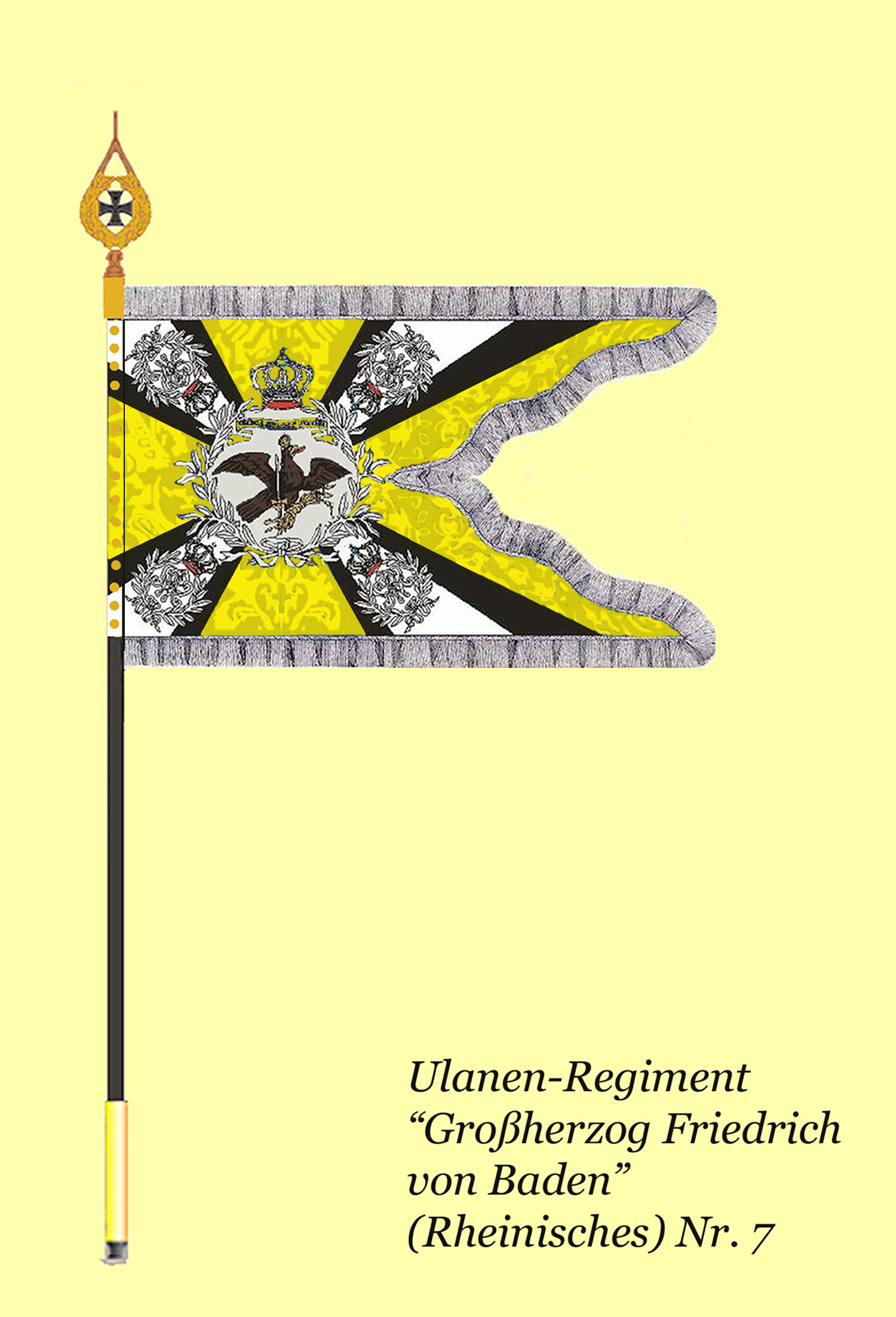 Colors of the royal prussian 7th Lancers-Regiment